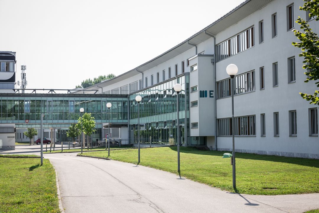 Alpen-Adria-Universität Klagenfurt: South Wing (seen from the West)